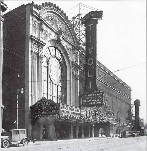 This is the Tivoli theater, the first theatre from moguls Balaban & Katz in the Woodlawn area.